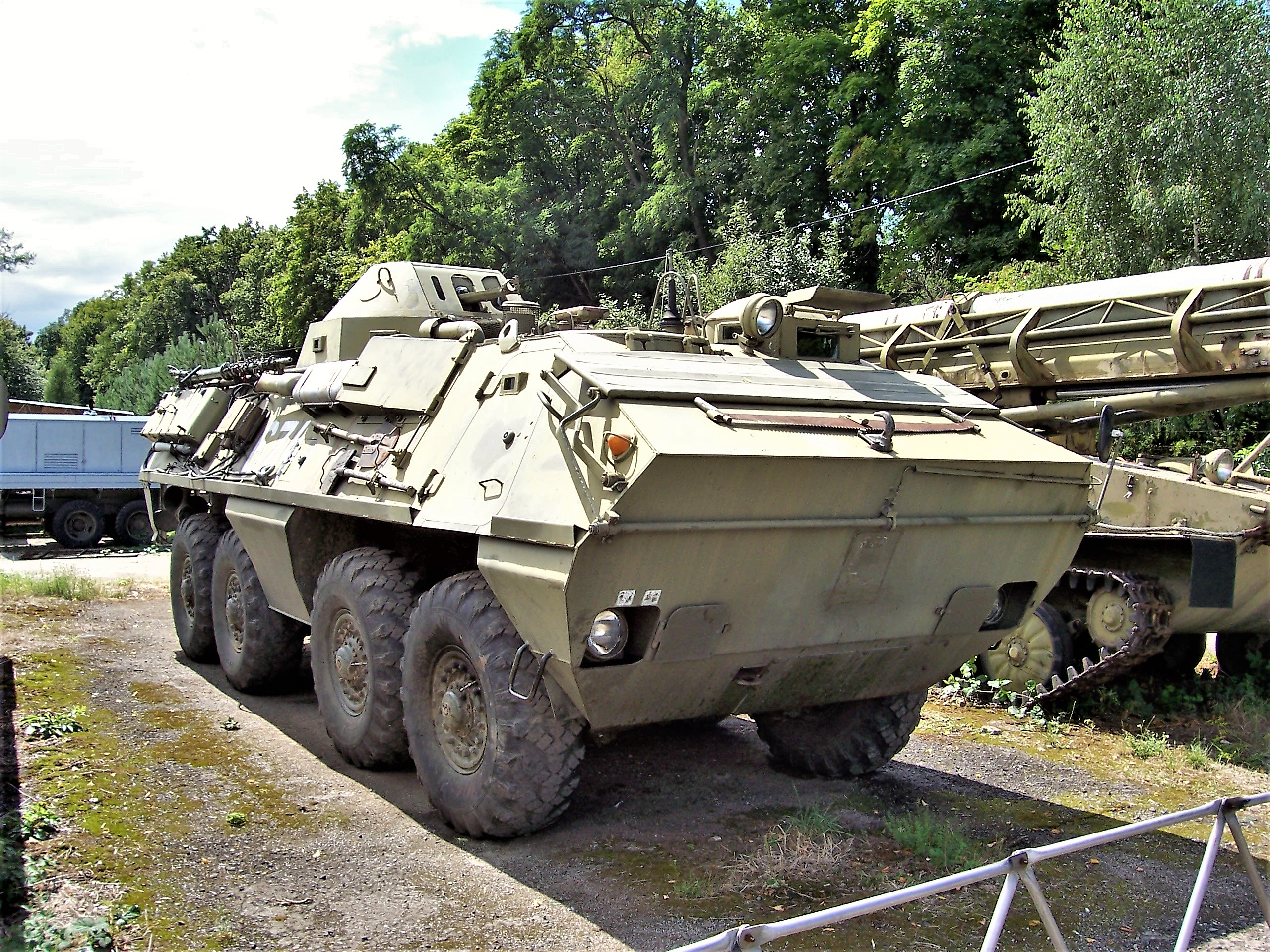 OT-64_SKOT at Airforce Museum in Brno, Czech republic